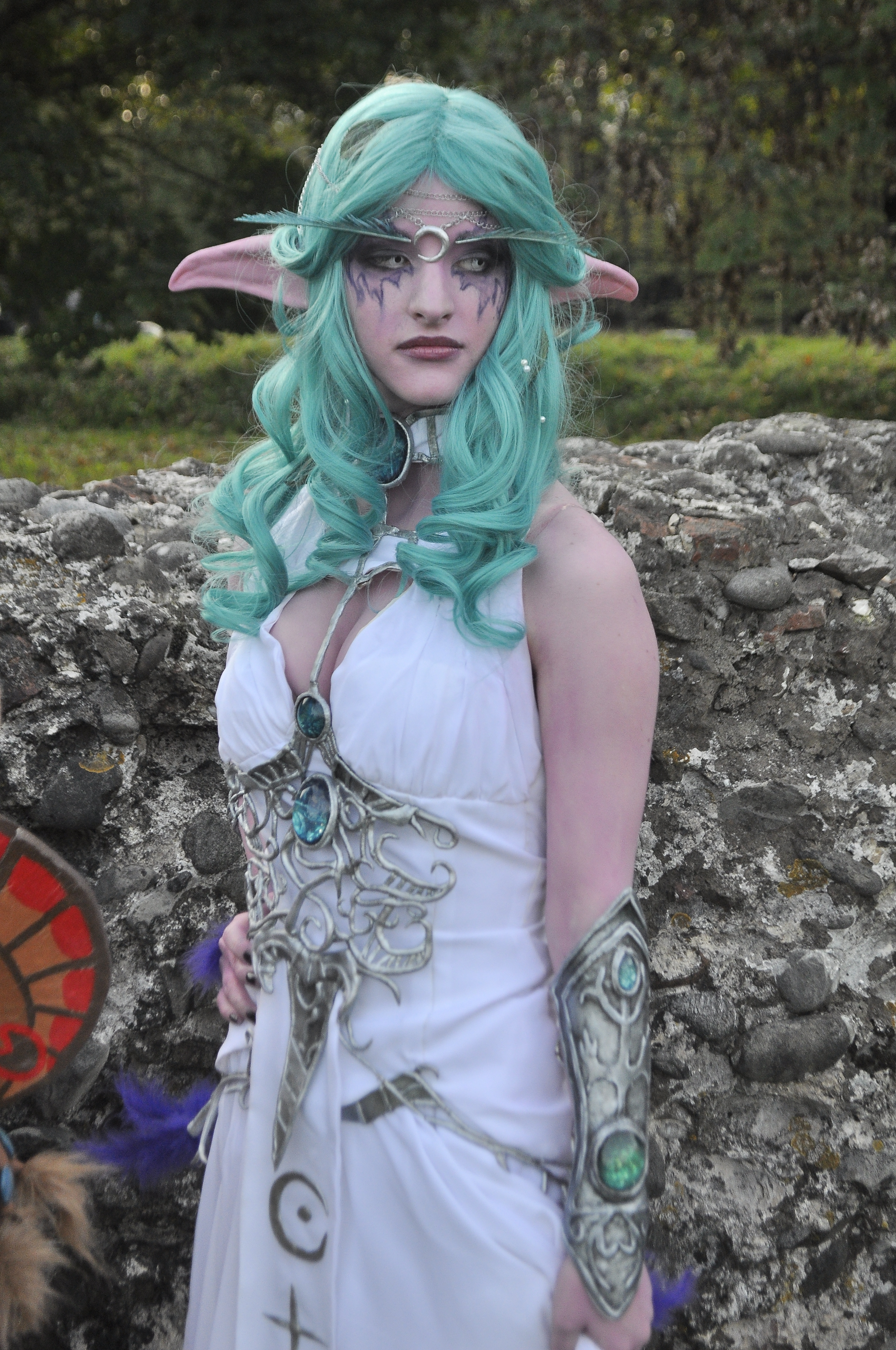 Cosplay at Lucca Comics & Games 2013 - Tyrande from Warcraft